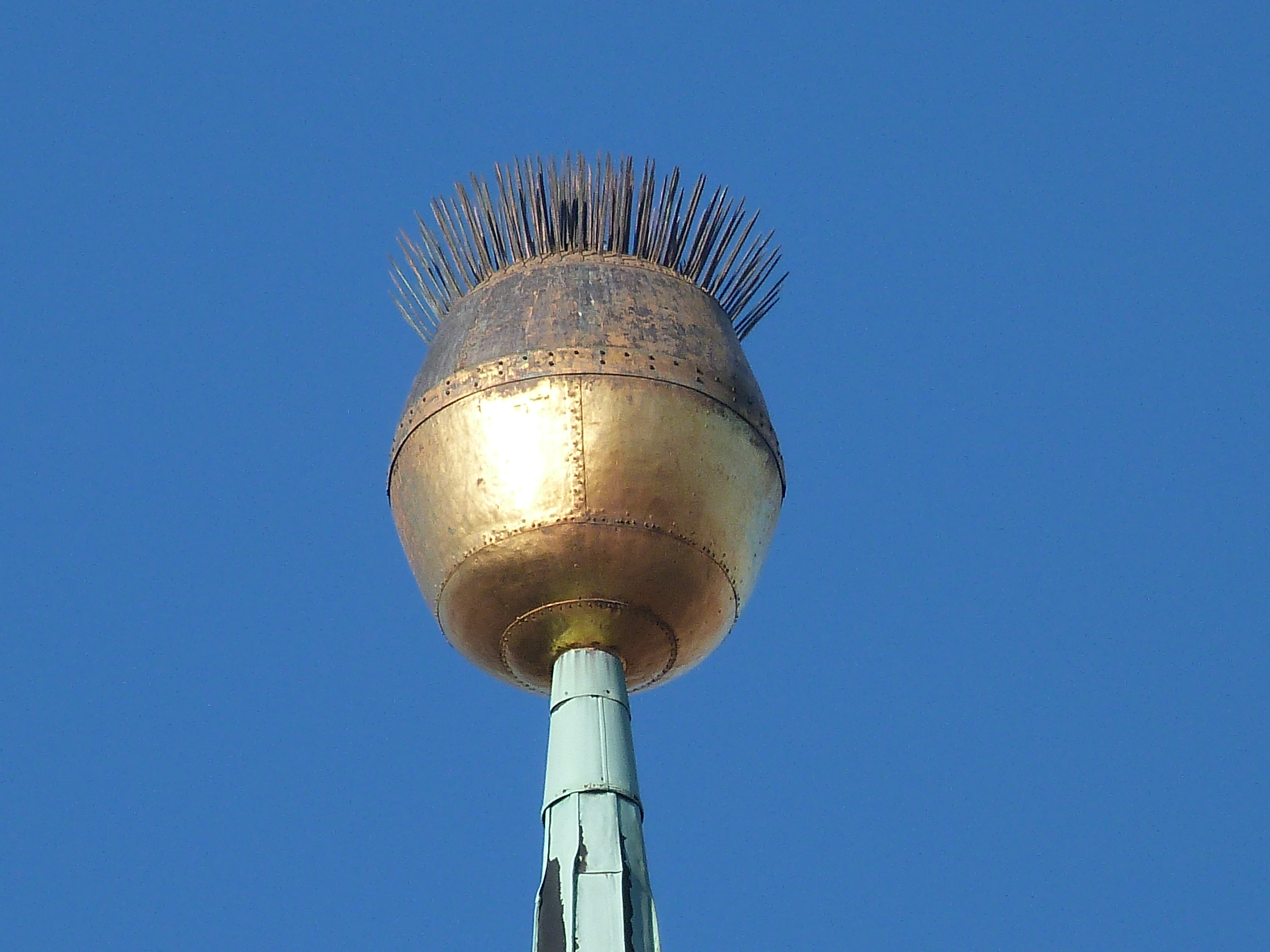 Roter Turm, knob, Halle Saale